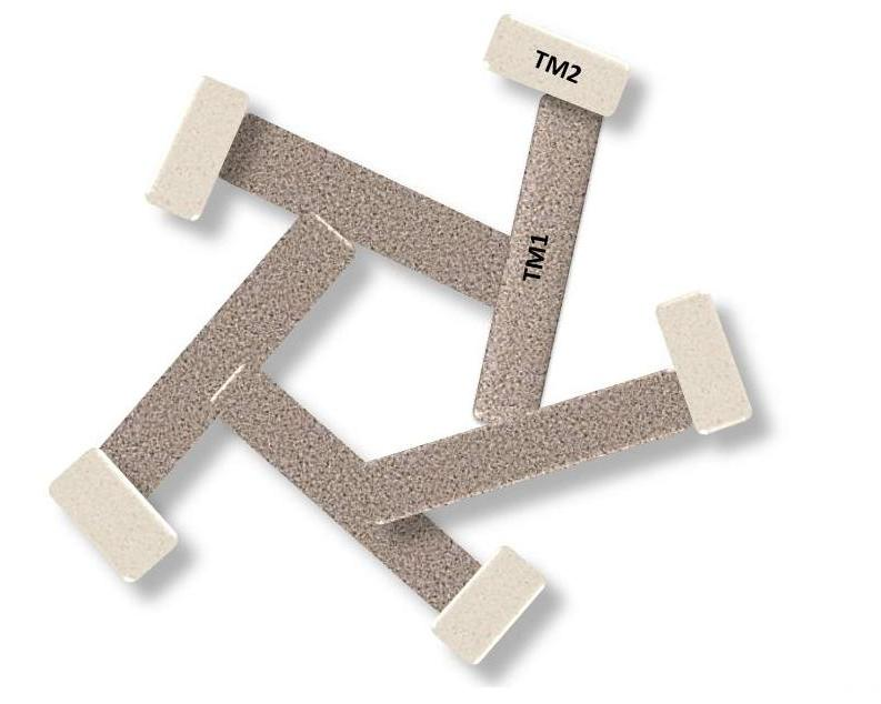 Finite Element Model of MscL (Large conductance mechanosensitive channel) transmembrane model